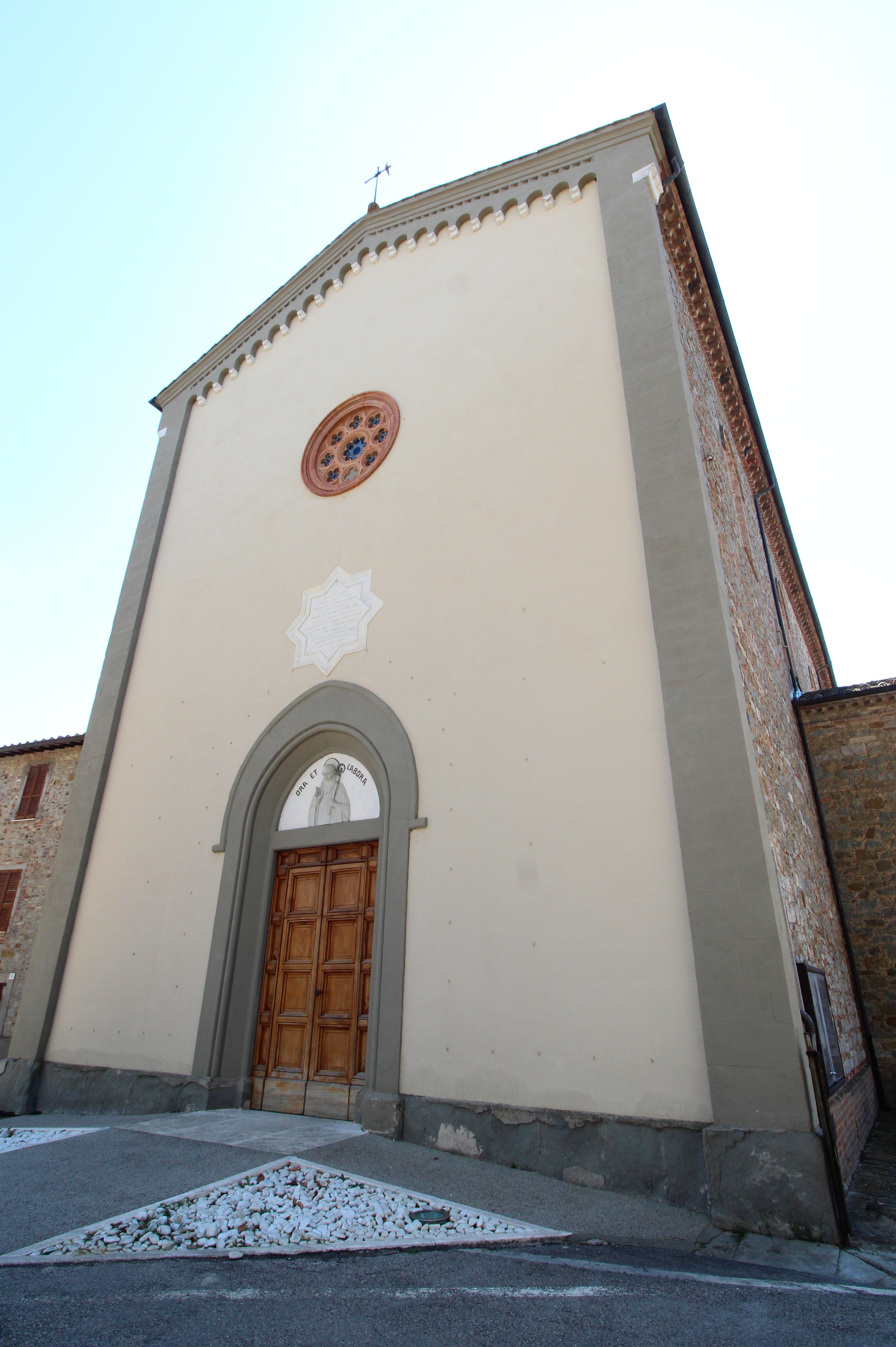 Church San Benedetto, Mugnano, hamlet of Perugia, Umbria, Italy